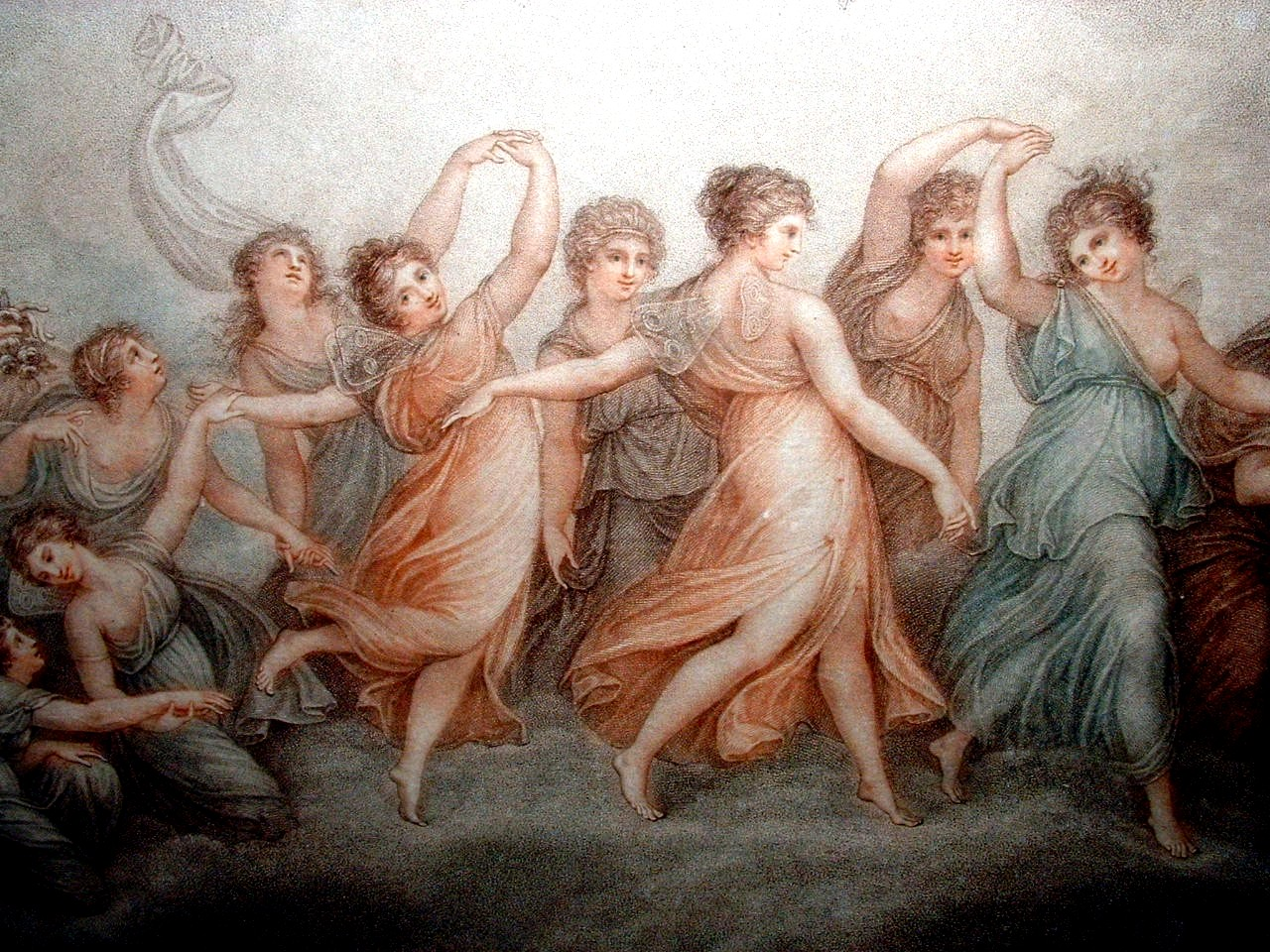 Center detail of original engraving "The Hours" by Francesco Bartolozzi